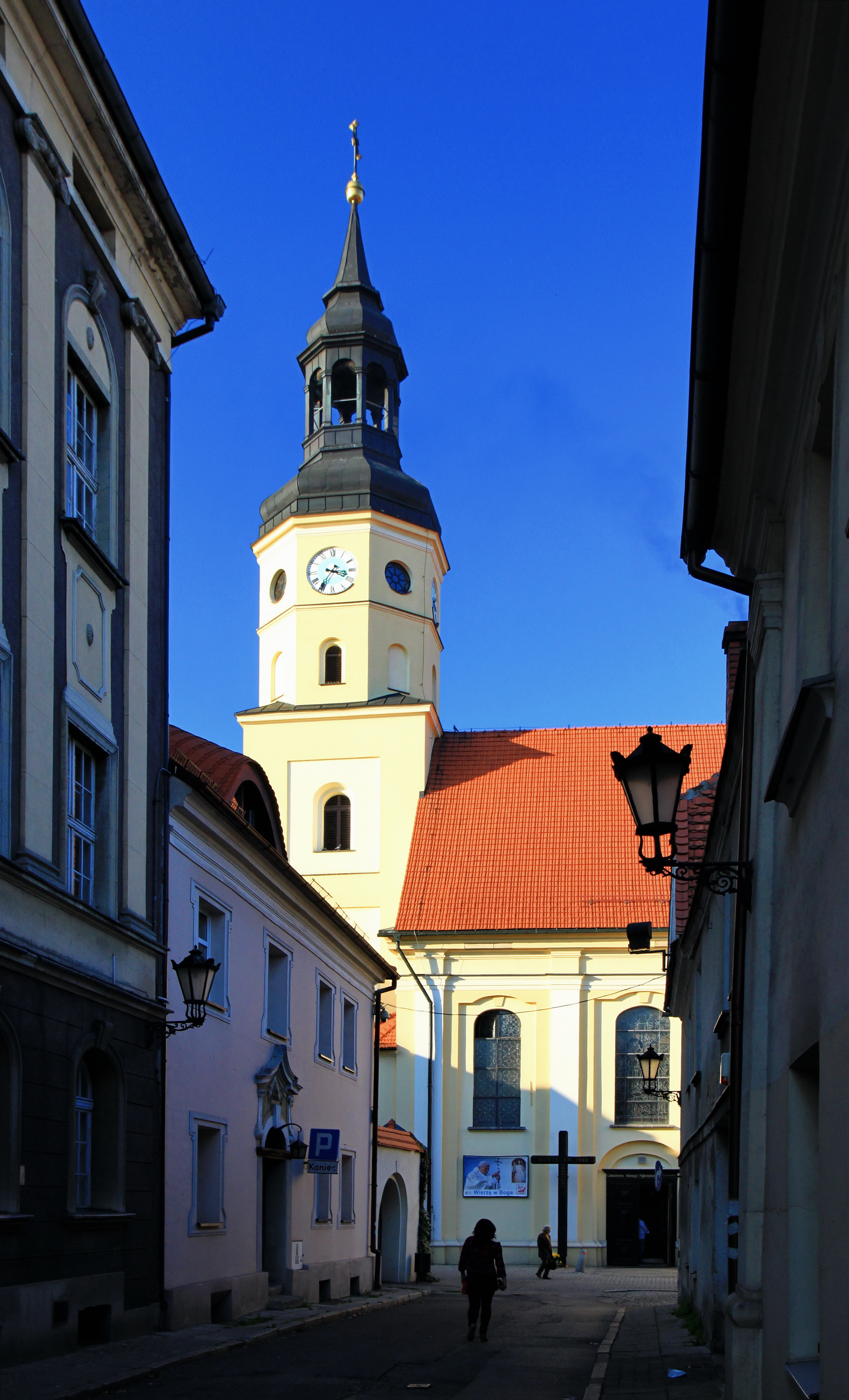 Pszczyna, All Saints parish church, build in end of 17th century, 1754, 20th century